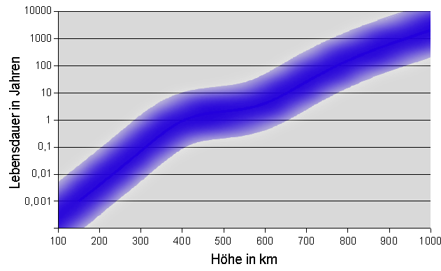 Satellite lifetime dependent on orbit high. Further parameters not specified like ballistic coefficient or solar activity.